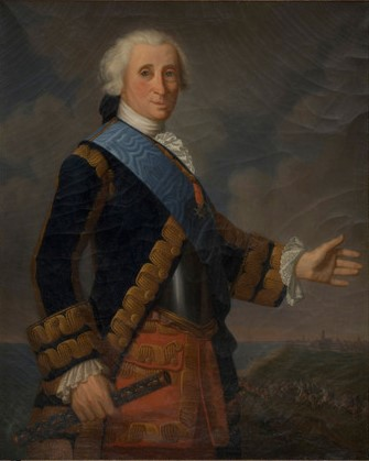 Portrait of Anne Emmanuel, 8th Duke of Croy (1743-1803)